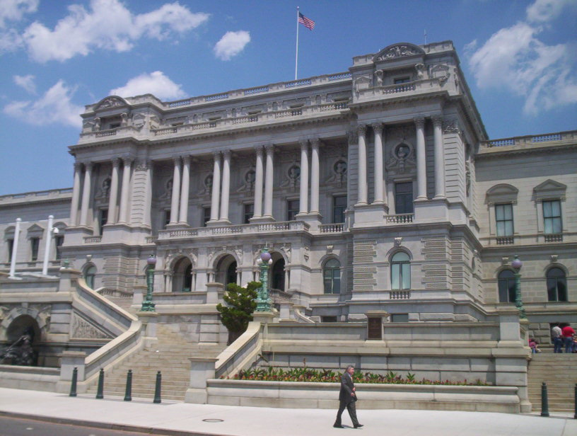 Library of Congress, Washington, D.C., United States